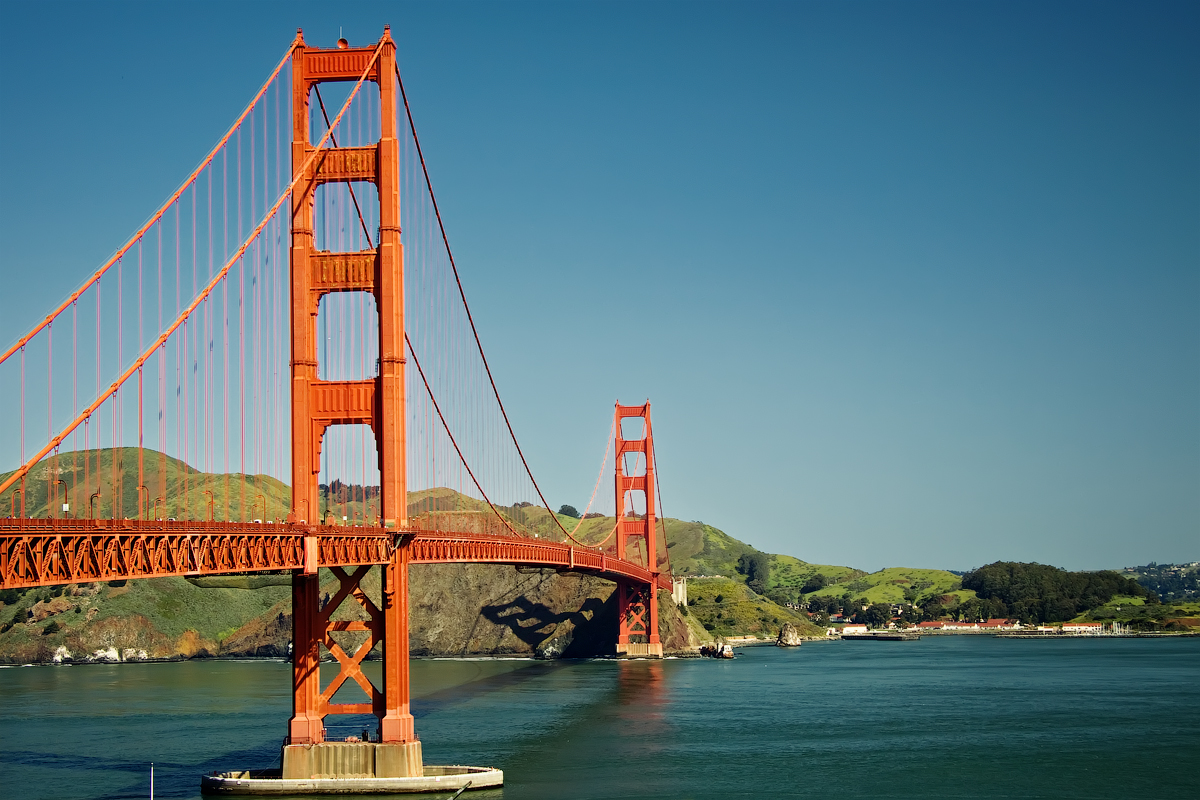 The Golden Gate Bridge, San Francisco, California.